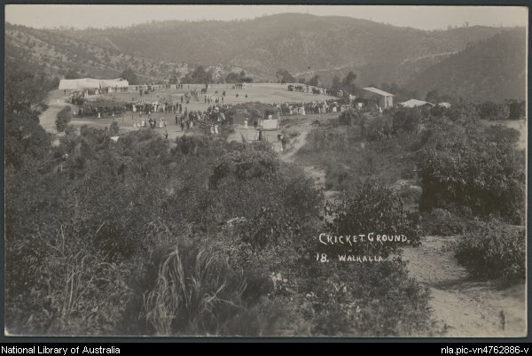 Walhalla Cricket Ground from on top of Recreation Hill, Walhalla.